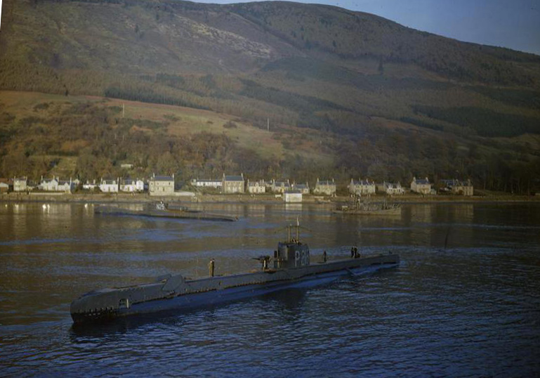 Royal Navy Submarines in Holy Loch, Scotland, 1942 HM Submarine SEADOG (P216) in the foreground moving off. In the background is HMS THUNDERBOLT (N25). HMS THUNDERBOLT was originally HMS THETIS which sank with heavy loss of life in the Mediterranean just before the war and was subsequently salvaged. The two objects seen on her after casing are containers for human torpedo chariots.